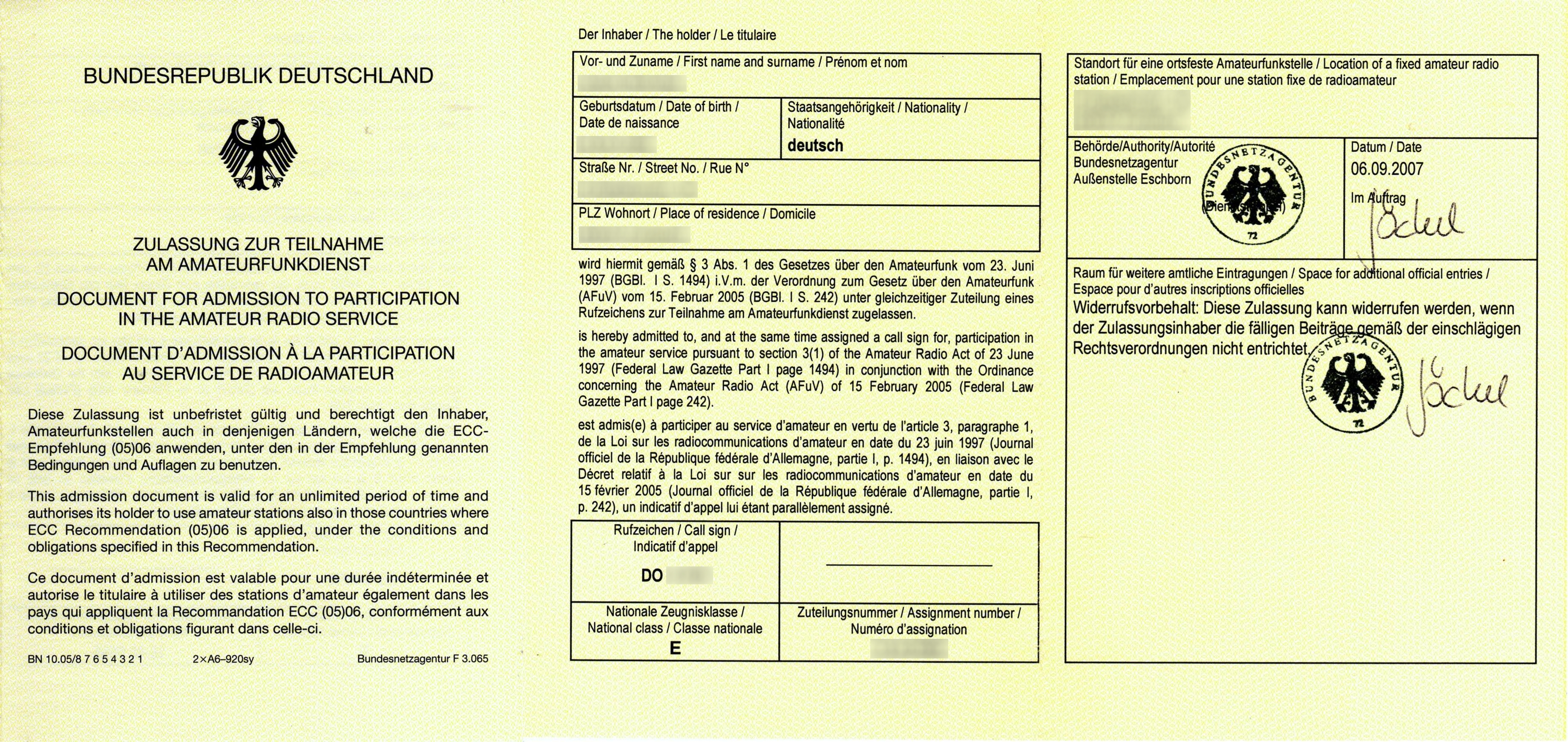 German amateur radio operator licence class E.